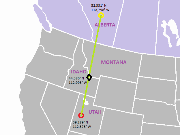 Trajectory of "1972 Great Daylight Fireball". In red the coordinates of the entry point in the atmosphere, in yellow the ones of the exit point. The black quadrangole denotes the coordinates of the perigee. The map was created cutting the relevant area from File:North America blank map with state and province boundaries.png and adding the trajectory on the basis of the info published in "Earth-grazing daylight fireball of August 10, 1972" di Z. Ceplecha.